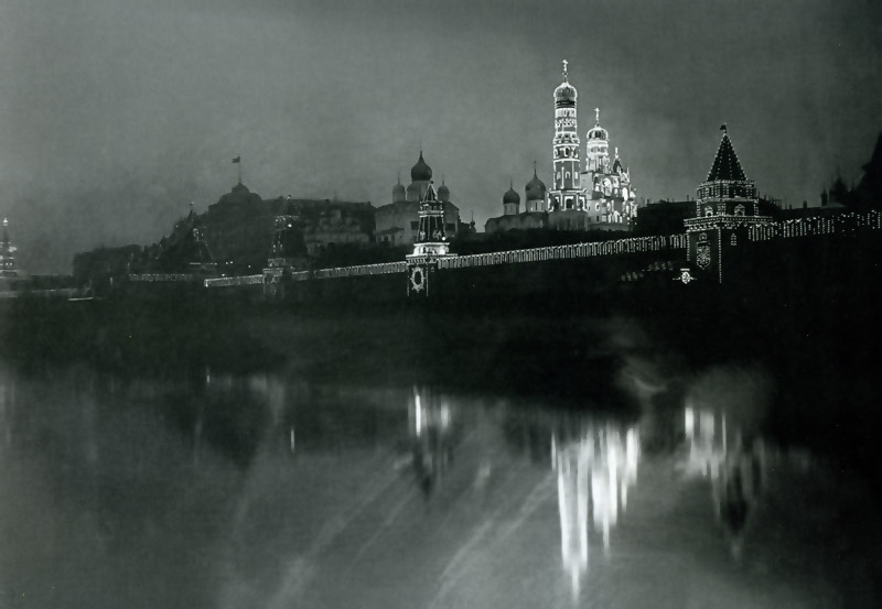 Illuminated Moscow Kremlin. May 1896, coronation of Nicholas II.